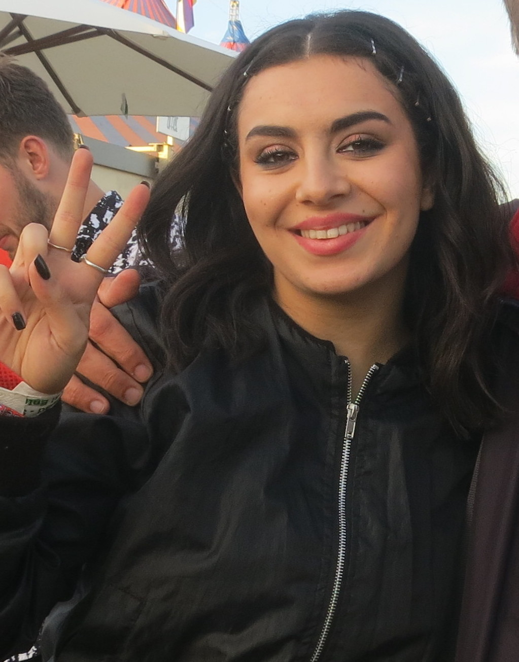 Charli XCX at Glastonbury 2015